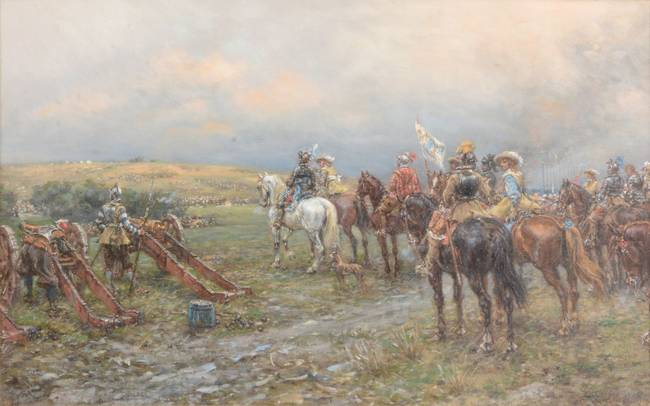 Ernest Crofts. Prince Rupert and his staff at Marston Moor. 1903.